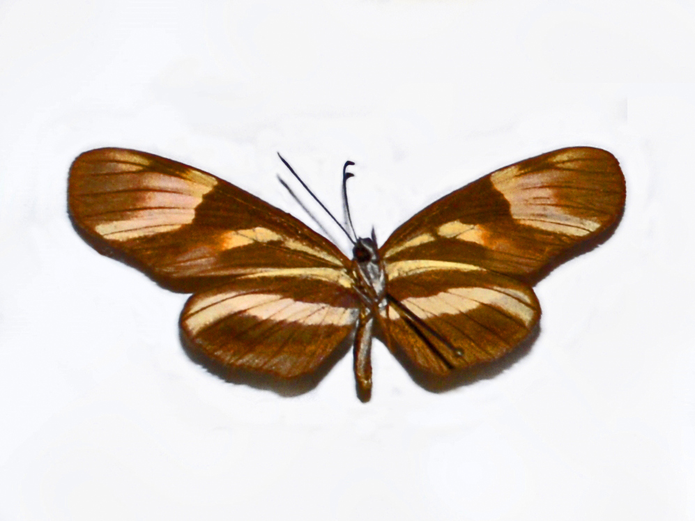 Eresia lansdorfi from Paraguay. Underside. Mounted specimen on display at the Civico Museo di Storia Naturale di Trieste